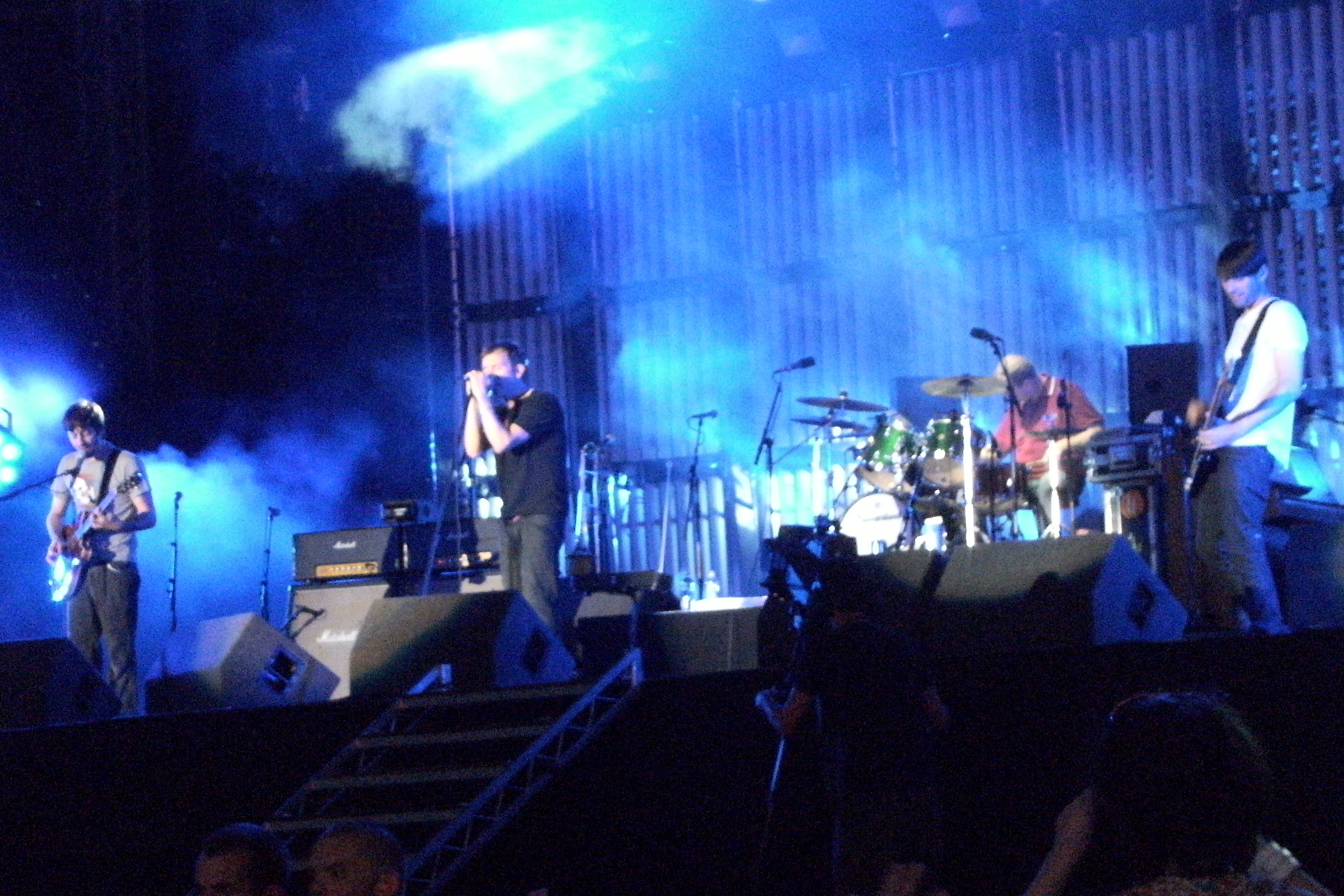 Blur on stage during their reunion concert at Hyde Park in July 2009.